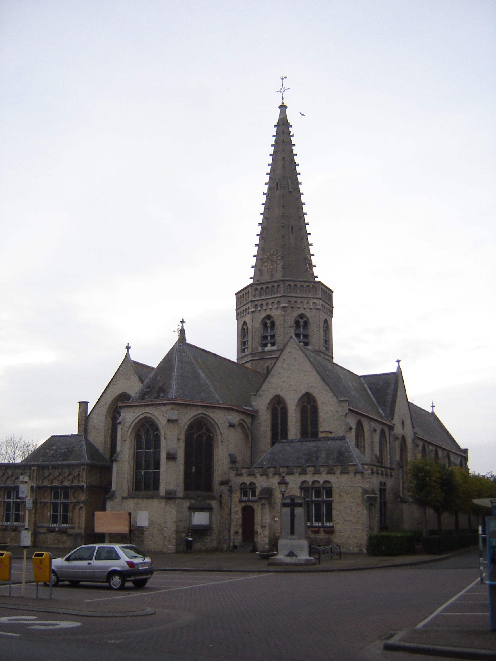 Church of Saint Hadrian in Handzame. Handzame, Kortemark, West Flanders, Belgium